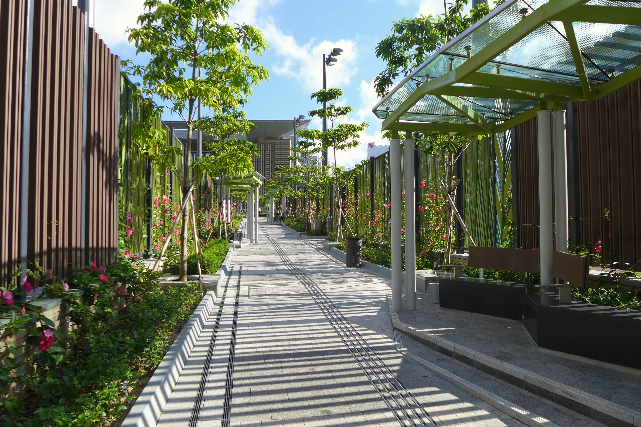 Kwun Tong Recreation Ground